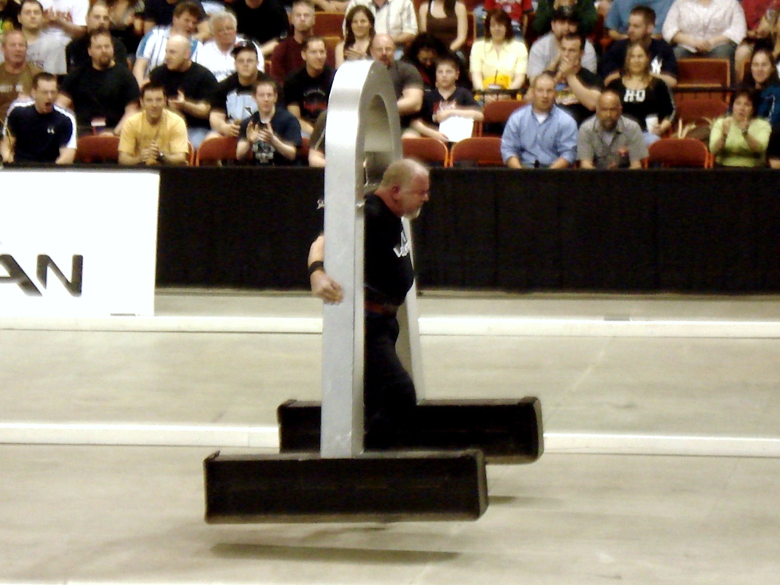 Odd Haugen at the Yoke Walk.